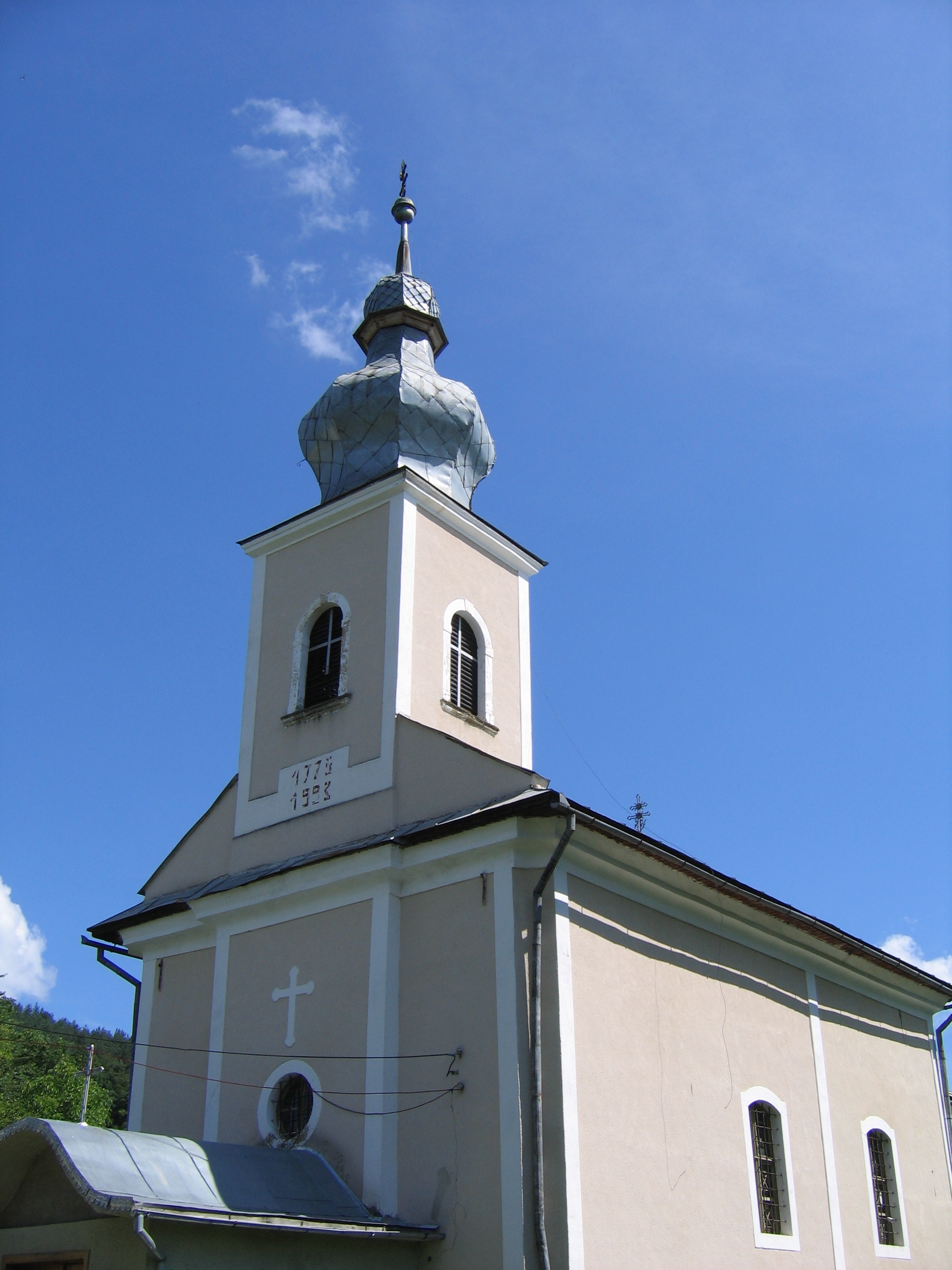 (Ukrainian/Rusyn) Greek Catholic church in Coștiui/Коштіль/Rónaszék